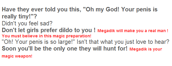 A portion of text typical of spam e-mail.